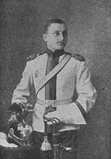 Kurcheninov, Aleksandr Sergeyevich.